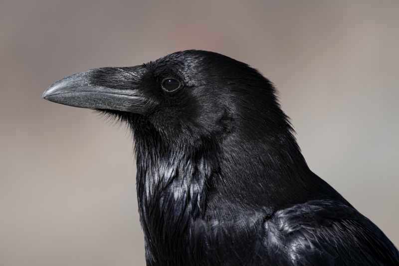 Portrait of Common Raven (Corvus corax), Death Valley, United States.